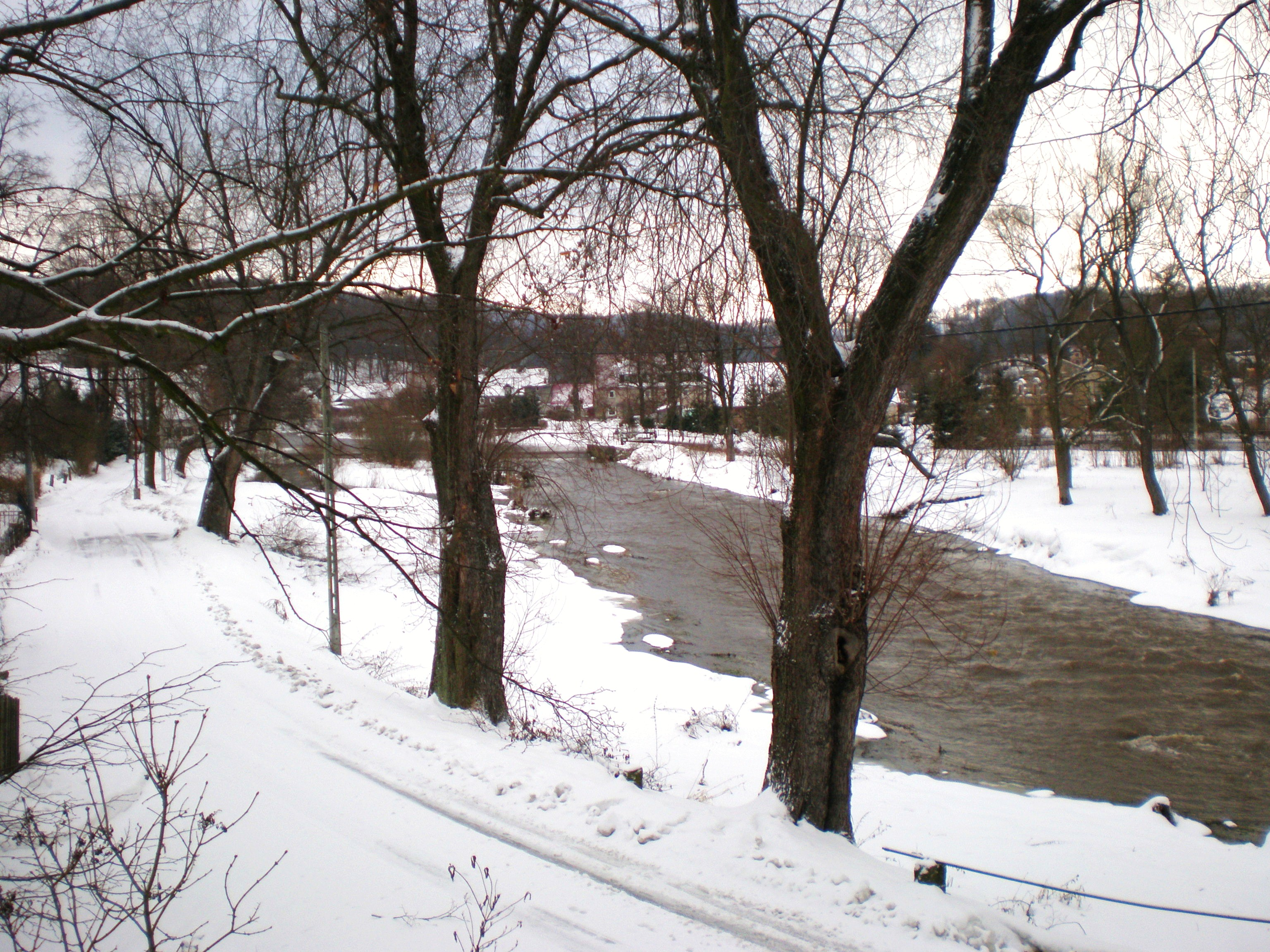 Janowice Wielkie - Chlopska Street